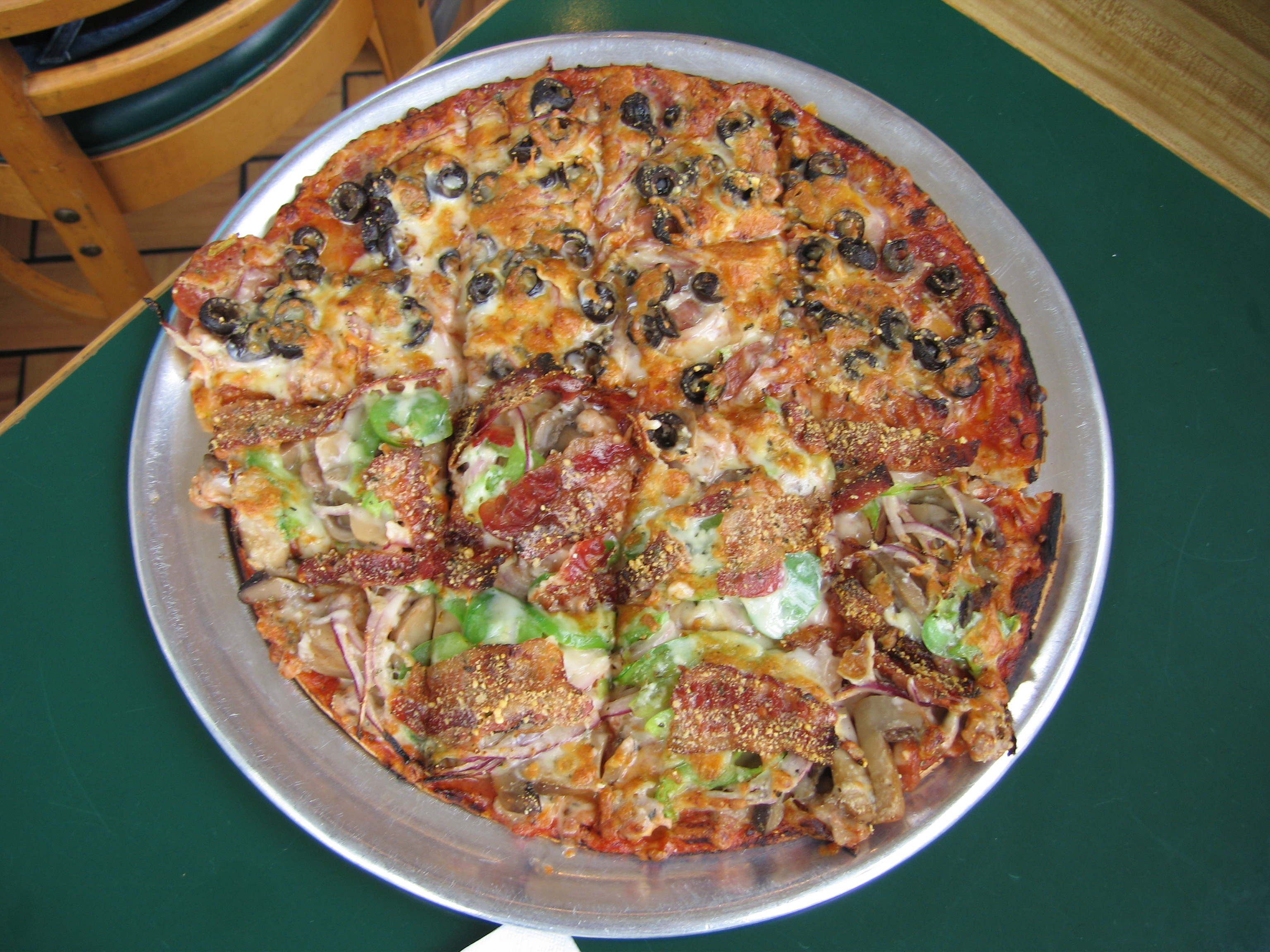 a freshly baked Imo's pizza at the Hampton and Oakland location. half Deluxe, half olive and canadian bacon.